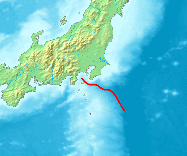 Map of the Sagami Trough(a trough near the southeast coast of Japan).